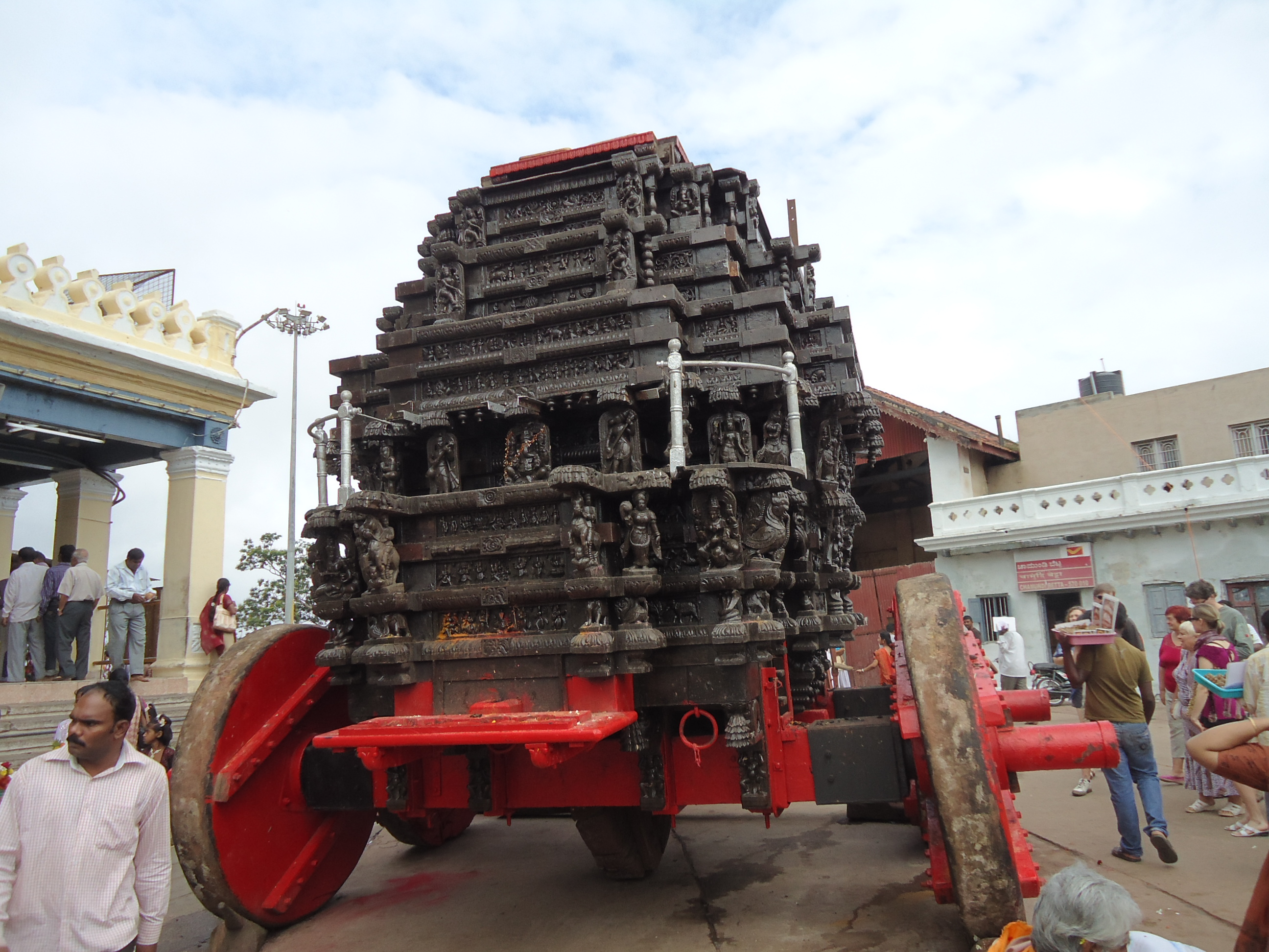 A Charriot in Chamundeswary Temple Mysore. Used in the Festivals